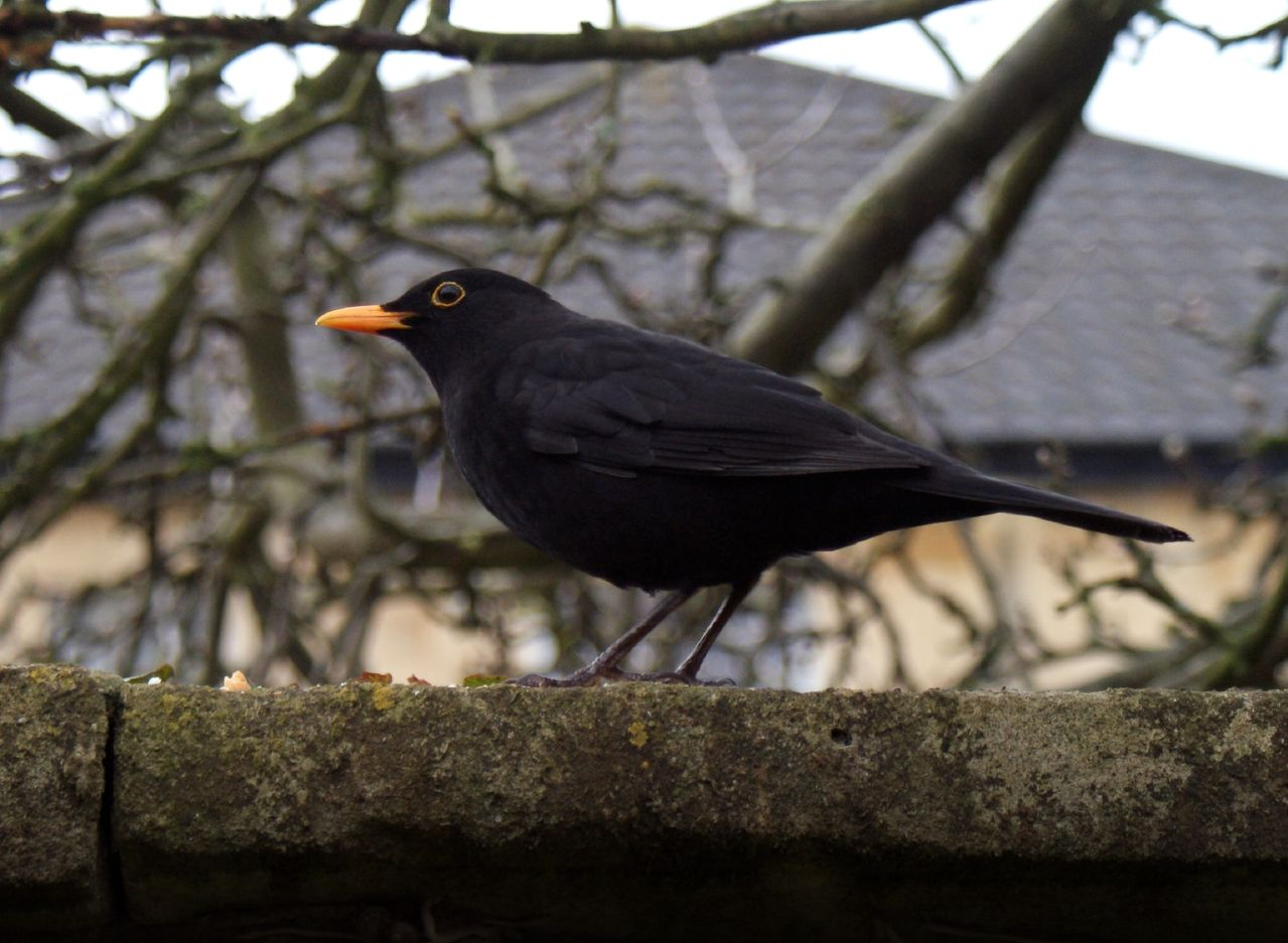 Common Blackbird, also called Eurasian Blackbird, or (in areas where it is the only blackbird-like species) simply Blackbird, perching on a garden wall. Photographed in England.